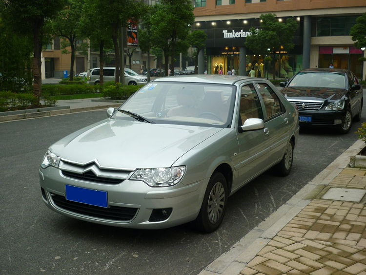 Citroën C-Elysée in Shanghai, China